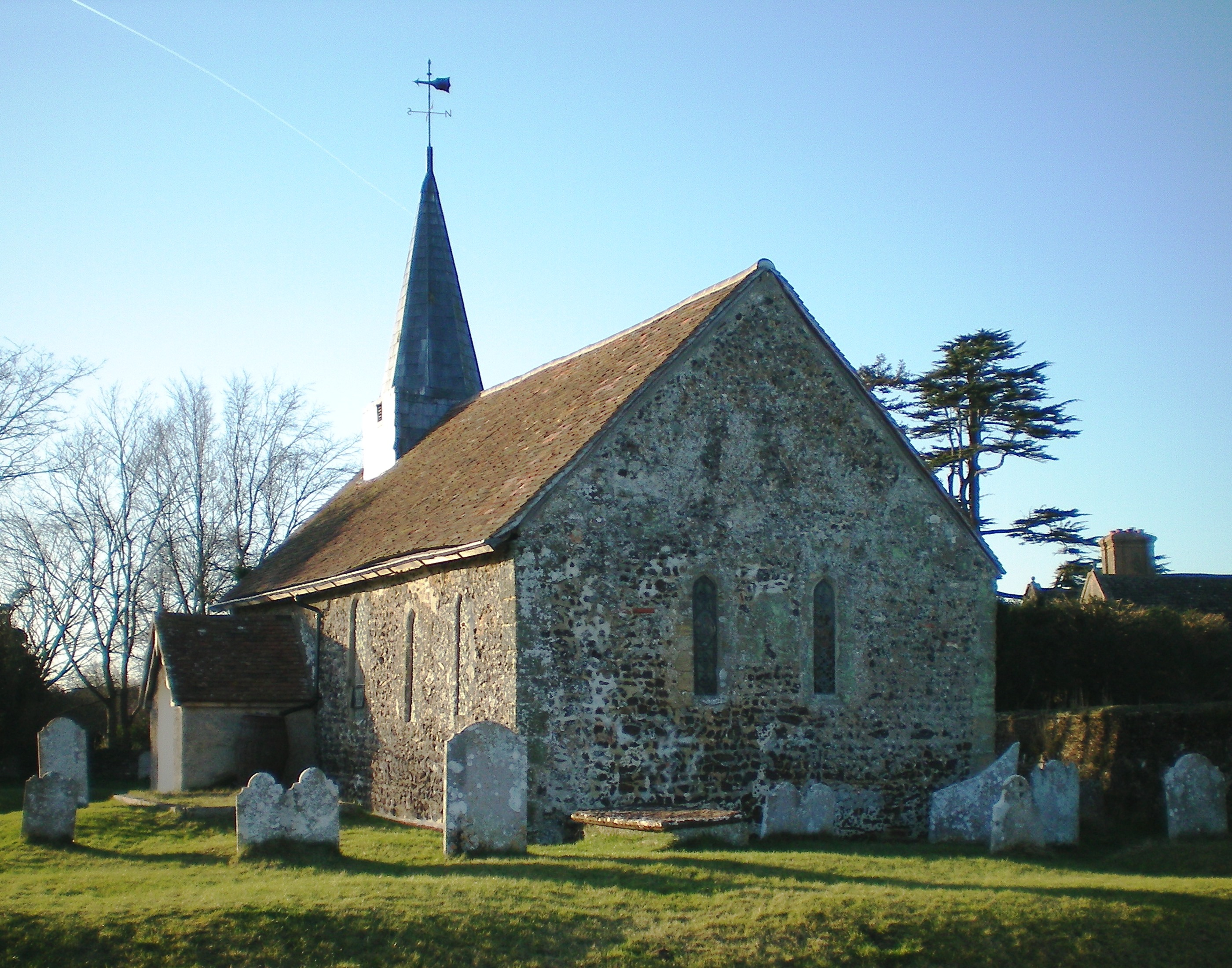 Greatham Church, Greatham, near Pulborough, West Sussex, England. Derivative of File:Greatham Church.JPG (cropped and brightened)